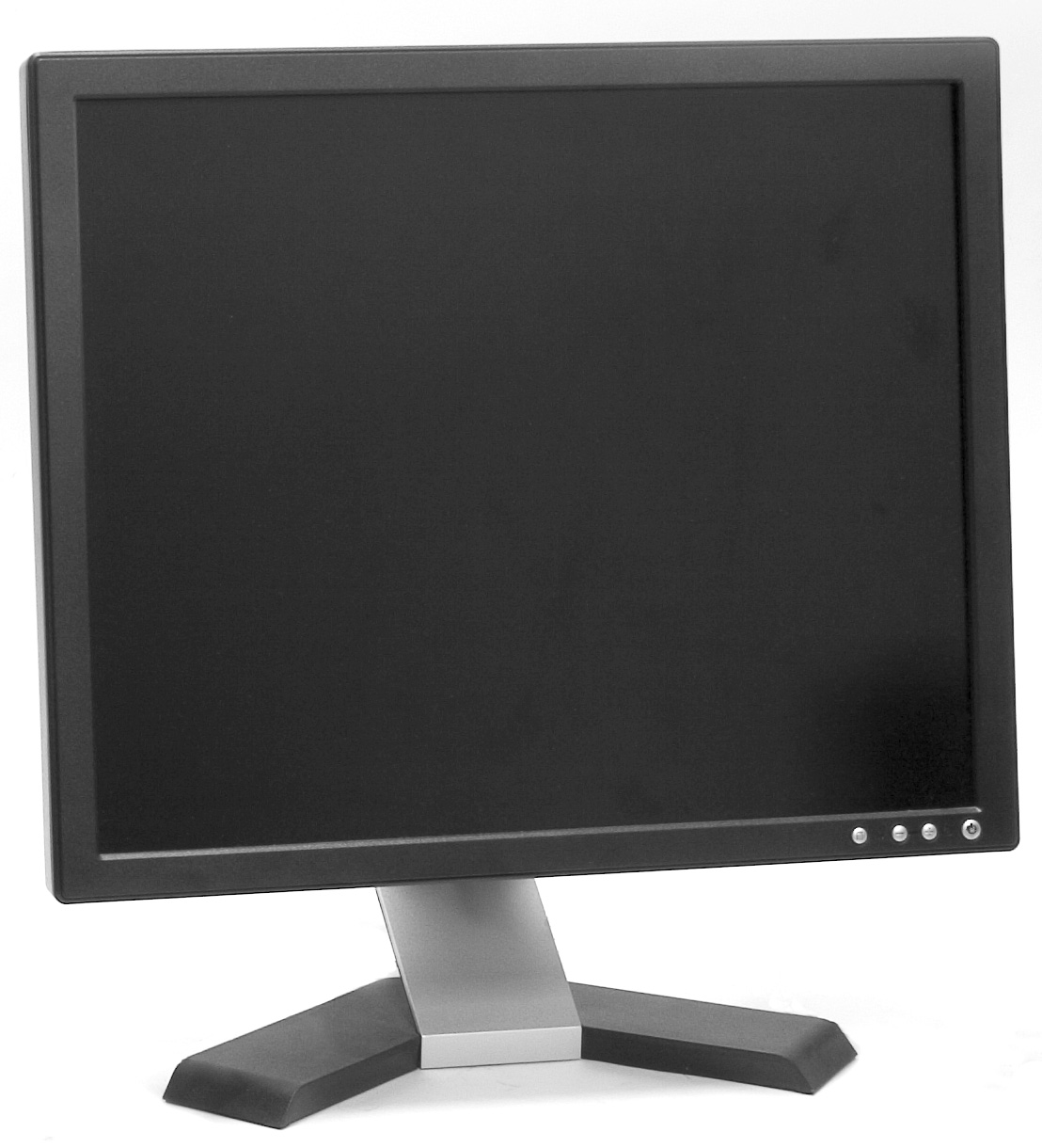 A flat panel LCD computer monitor